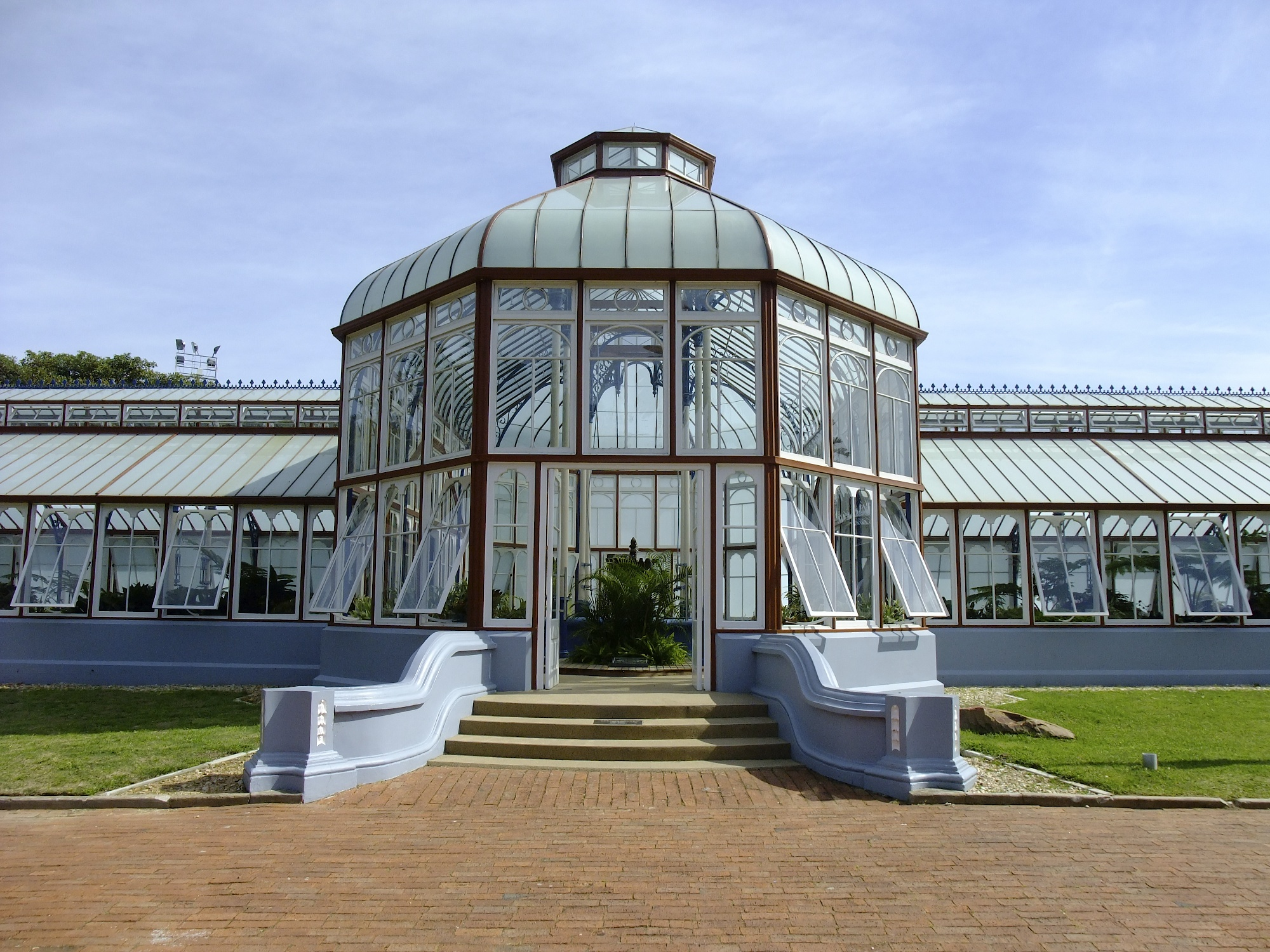 Pearson Conservatory, St. George's Park, Port Elizabeth - outside view This media shows a South African Protected Site with SAHRA file reference 9/2/073/0031.